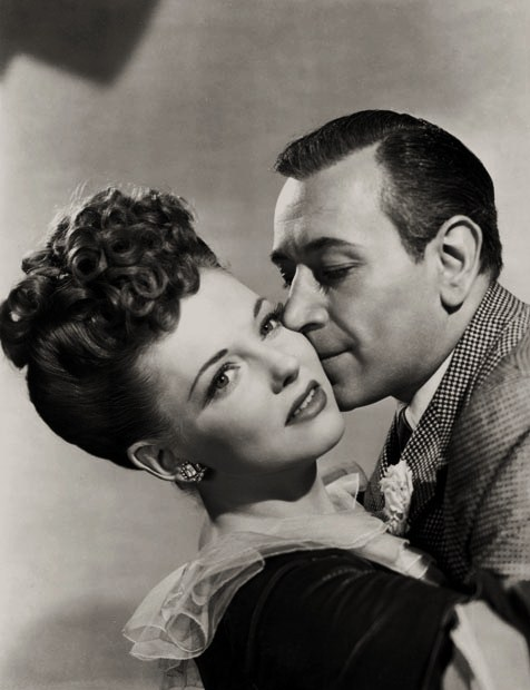 Vivian Blaine and George Raft in Nob Hill (1945) - publicity still